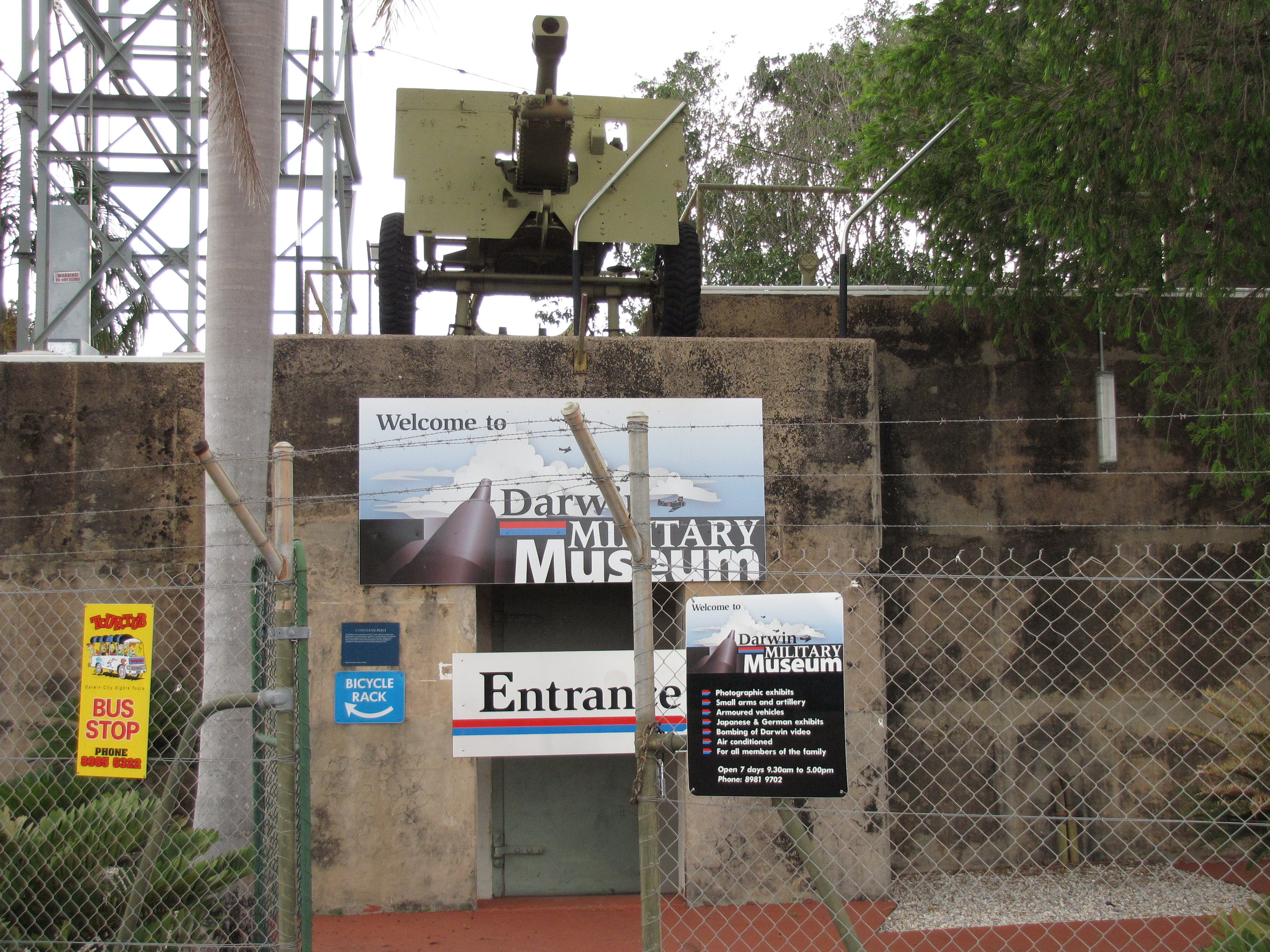 Entrance to the Original Darwin Military Museum at East Point.